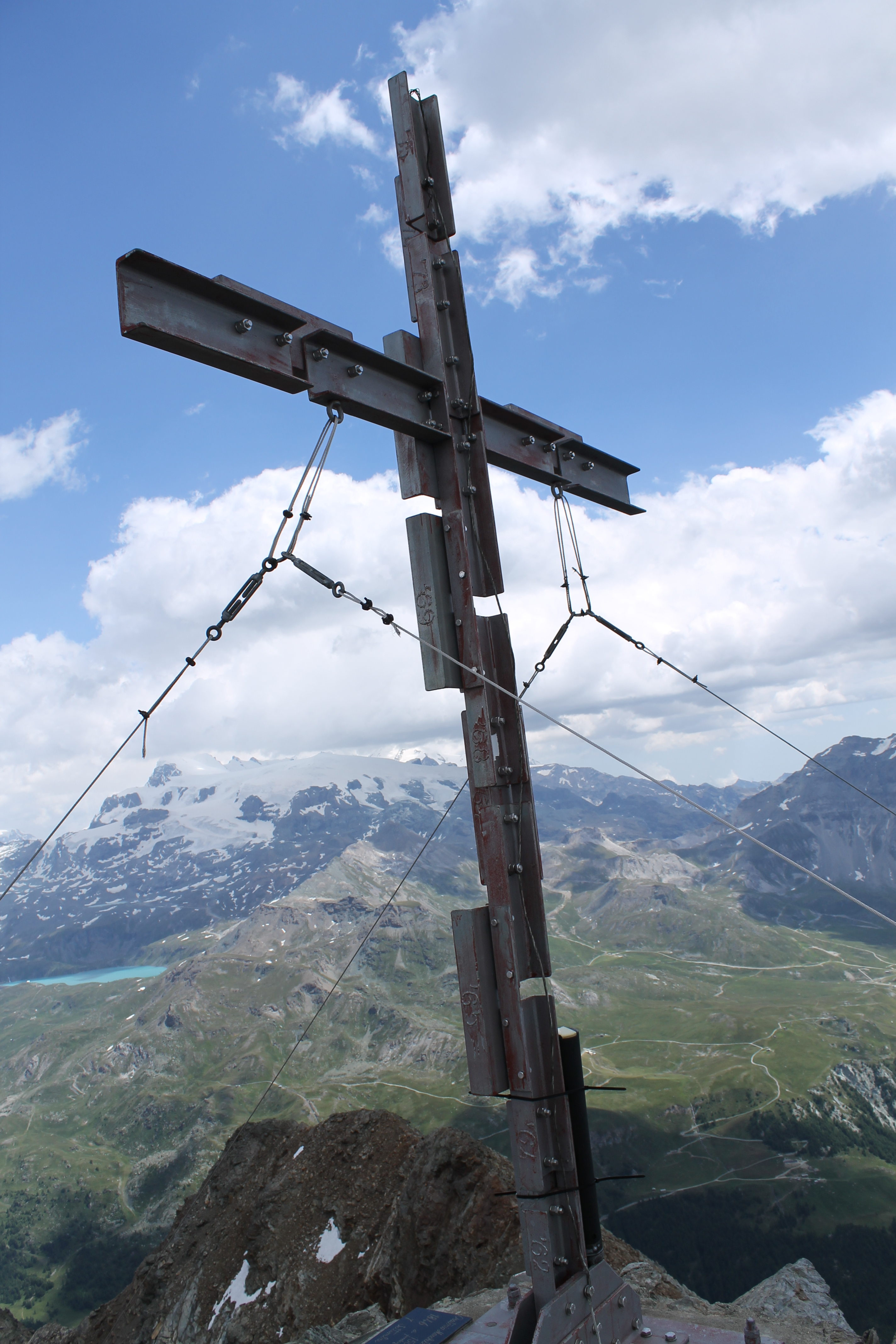 The cross on the summit of the Mount Rous, Valle d'Aosta, ITA